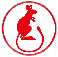 7th armoured division insignia